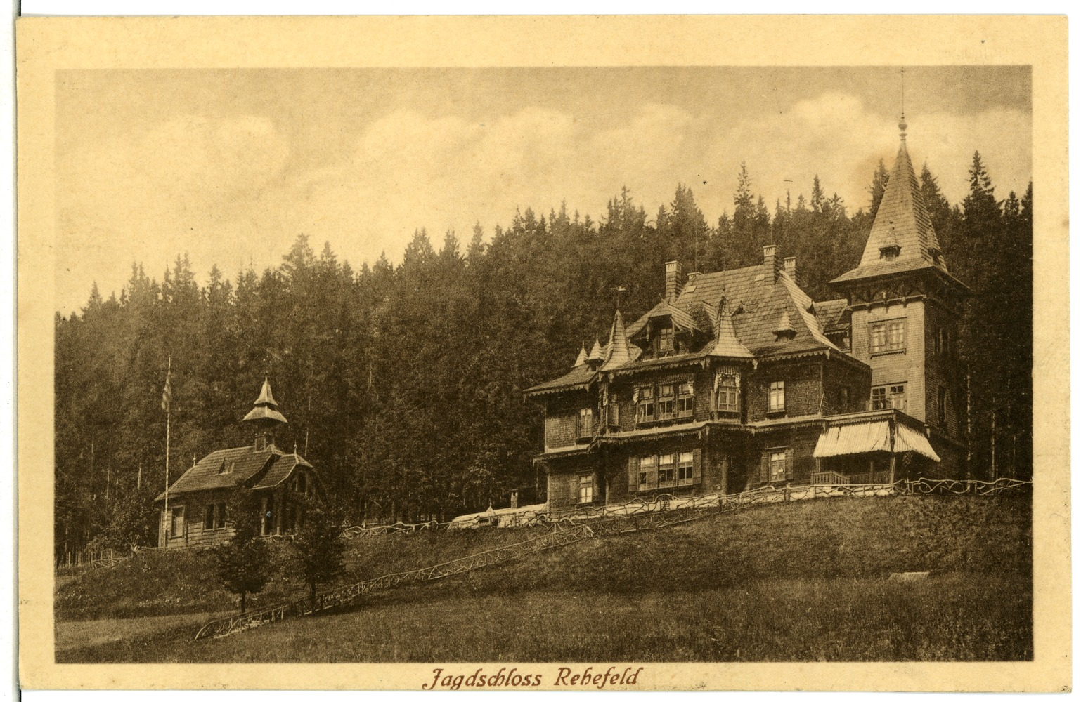 This postcard is from publisher Brück & Sohn in Meißen ( This postcard has a unique number 02298 and is available in a higher resolution at the publisher. This images was uploaded in a cooperation project between Wikipedians and the publisher.